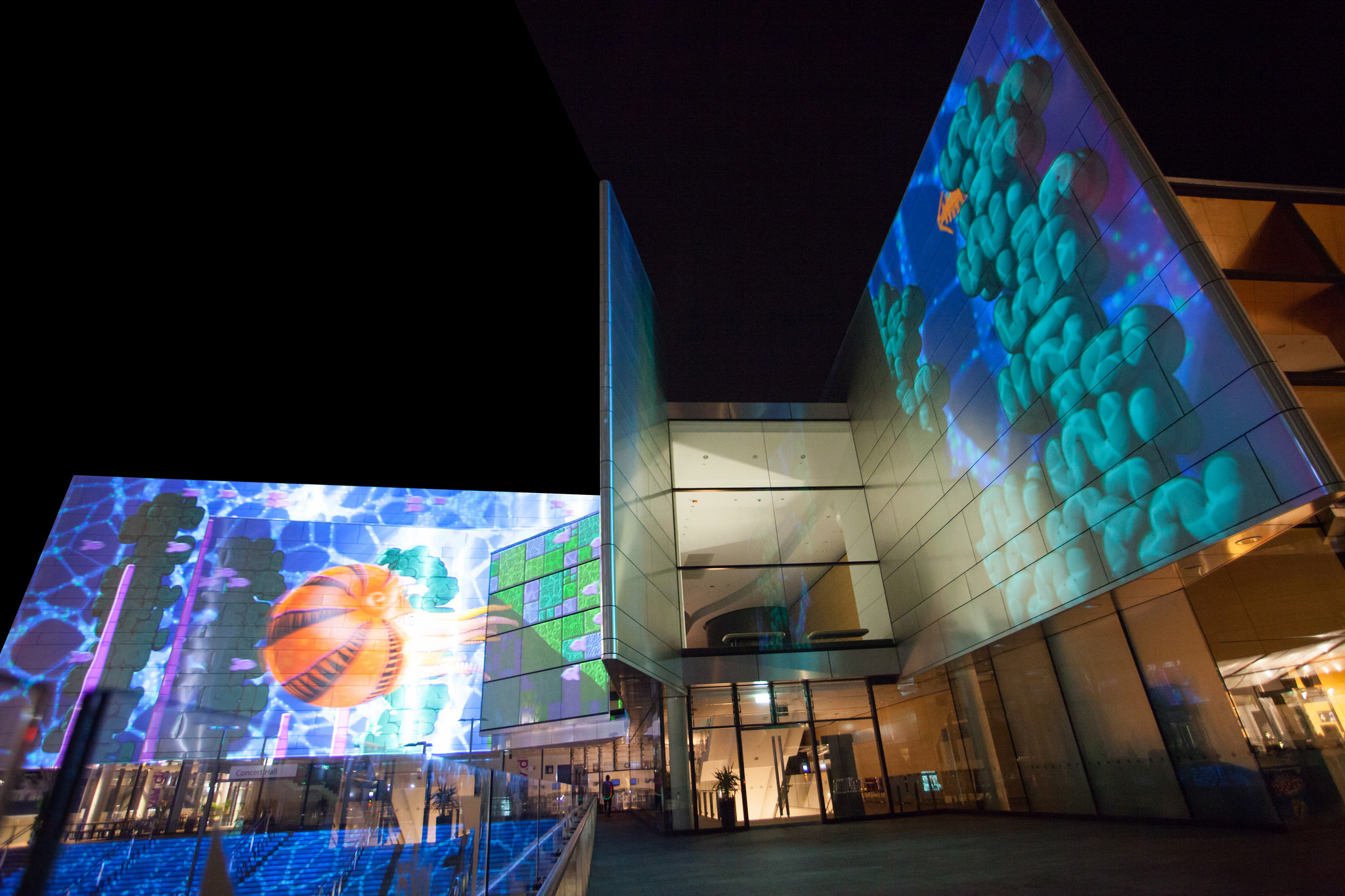 The Concourse, Chatswood - during the Vivid Festival 2015